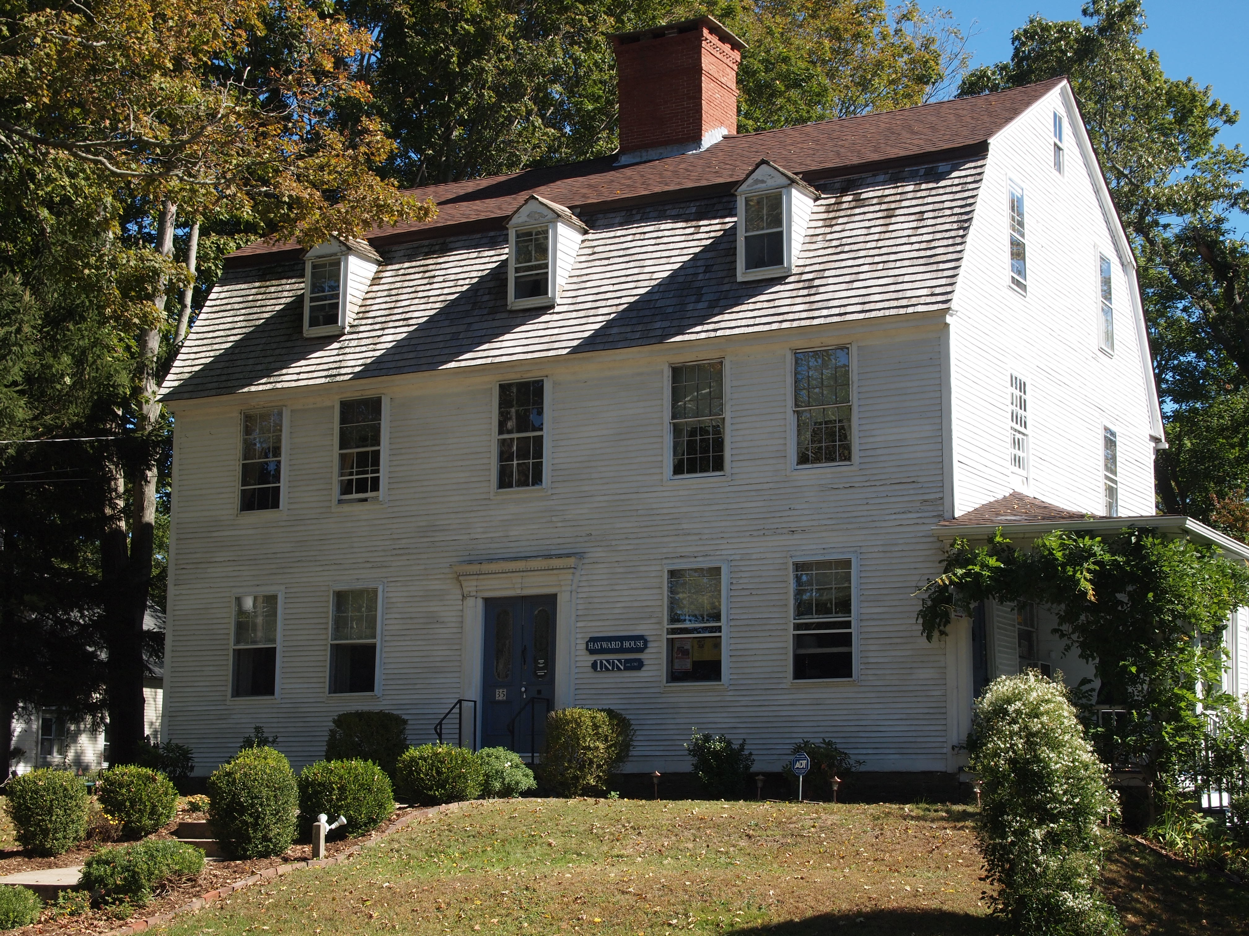 Hayward House, aka Dudley Wright-Dr. Watrous-Nathaniel Hayward House, 35 Hayward Avenue, Colchester, Connecticut Also part of Colchester Village Historic District